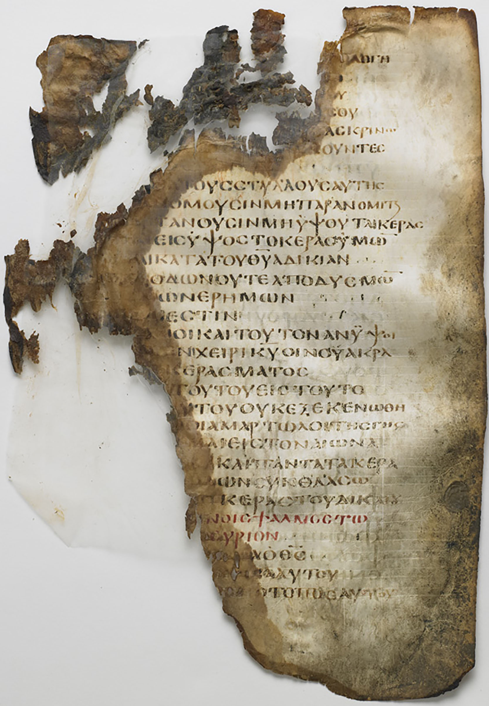 Ink on parchment H: 35.5 W: 28.0 cm Egypt early 5th century Psalm 74:2-75:3a